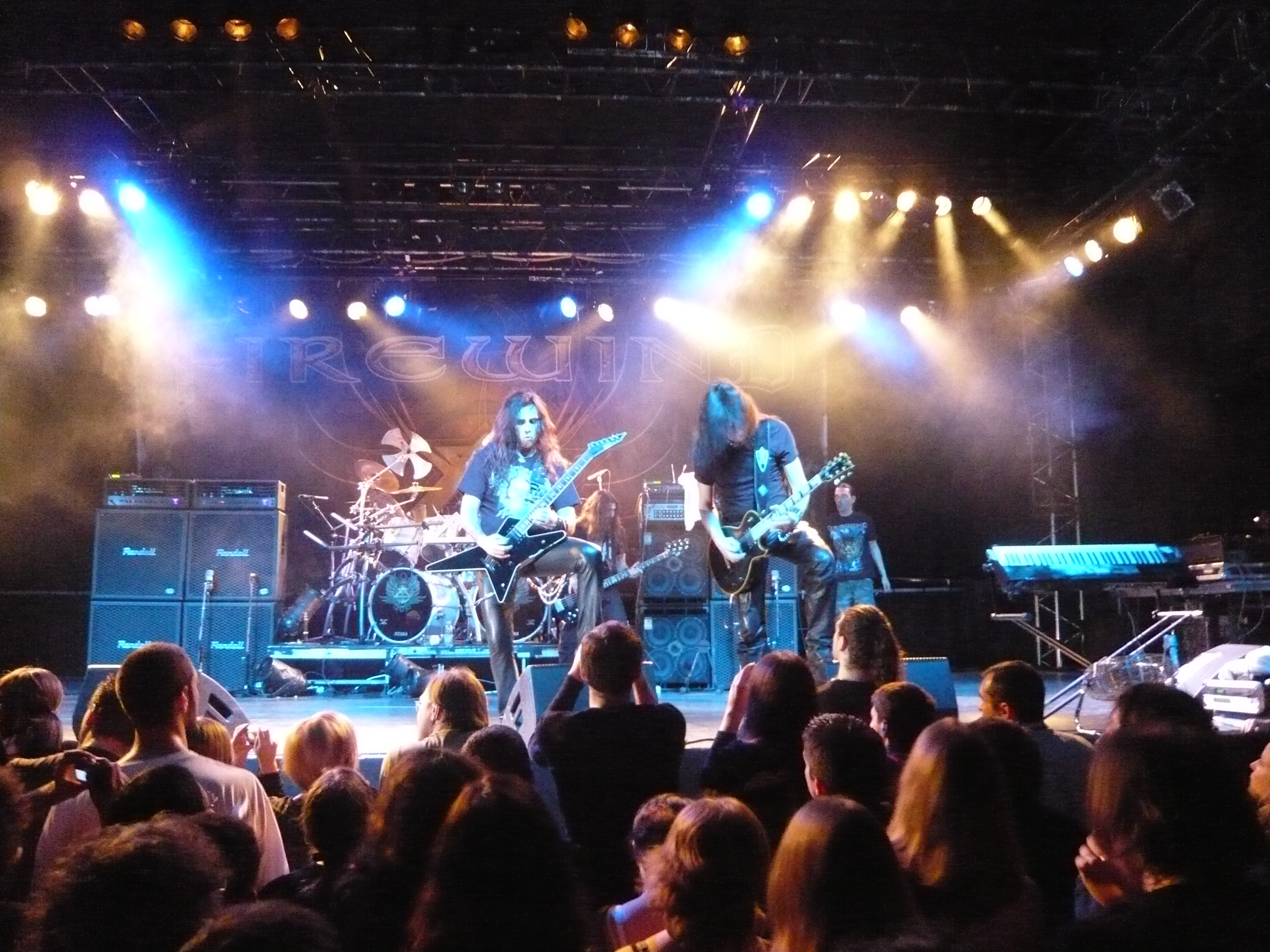 Firewind live at a concert in Paris at 10/11/08.